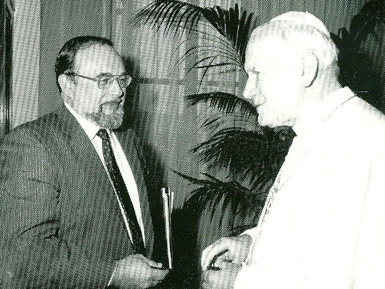 Dr. Damian Fedorkya with Pope John Paul II